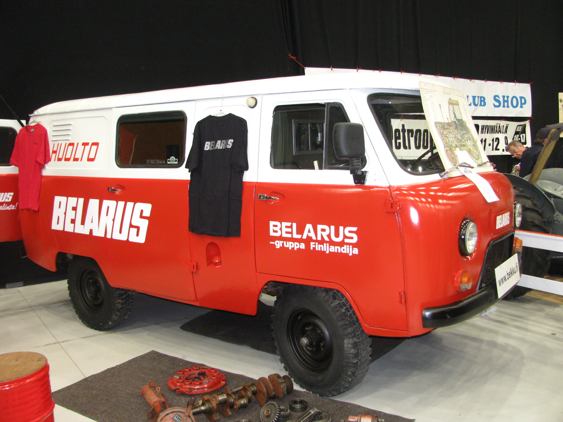 UAZ-3741-01, Classic Motor Show in Lahti, Finland. The owner of the van is Belarus tractor club of Finland. It was bought from an auction of Finnish Defence Forces and painted in the service van colours of the Finnish Belarus representative, Konela.